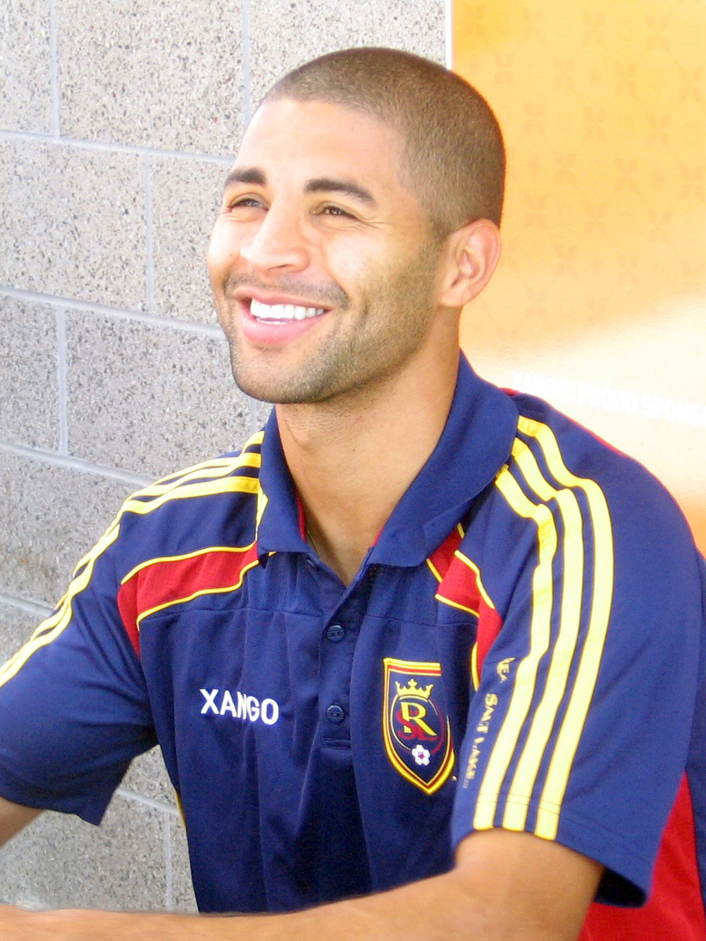 Alvaro Saborio of Real Salt Lake (RSL) football club, Major League Soccer (MLS), at a "Meet the Players" event. Held at Rio Tinto Stadium in Sandy, Utah, USA, on 21 Aug 2010.